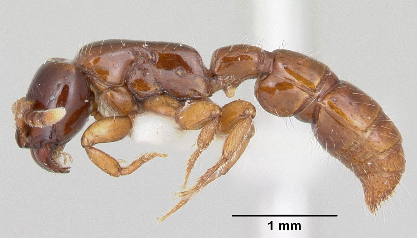 Profile view of ant Acanthostichus texanus specimen casent0105578.